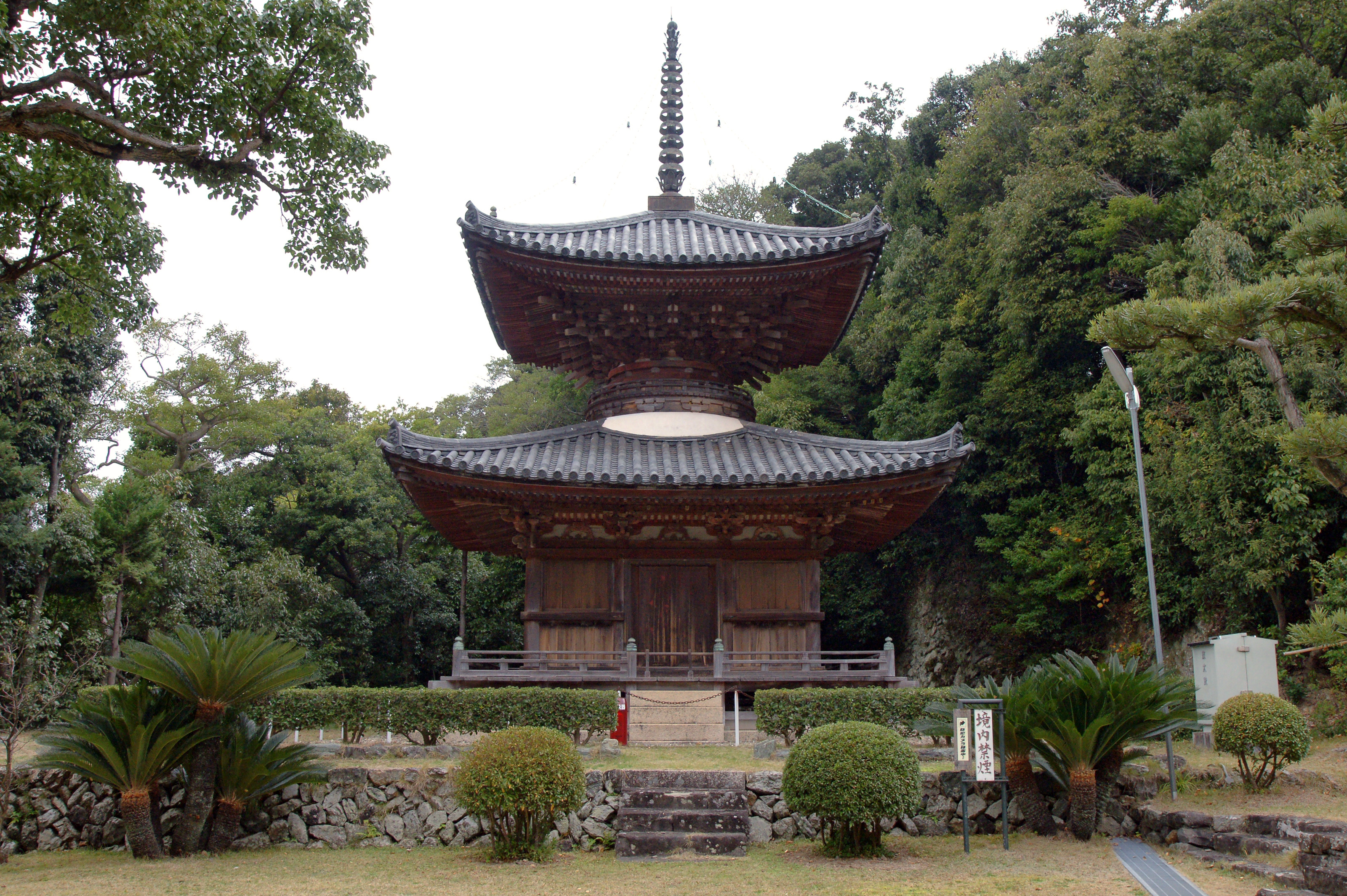 Jomyoji, Arida, Wakayama prefecture, Japan